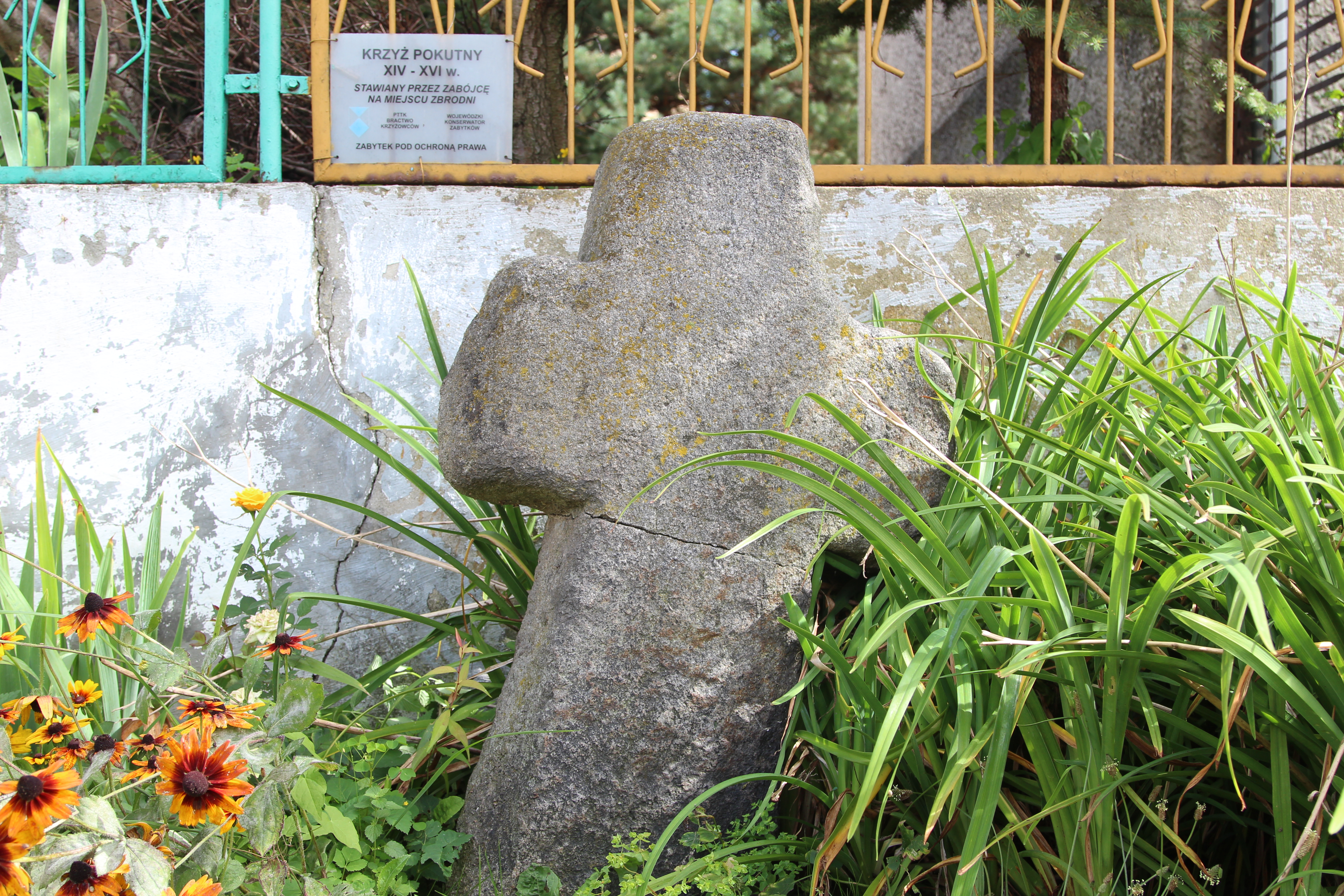 Stone cross in Polski Świętów